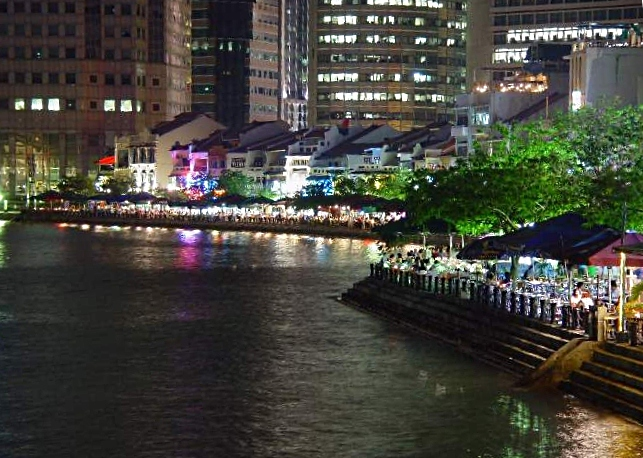 Boat Quay in Singapore alongside the Singapore River, viewed from upstream.